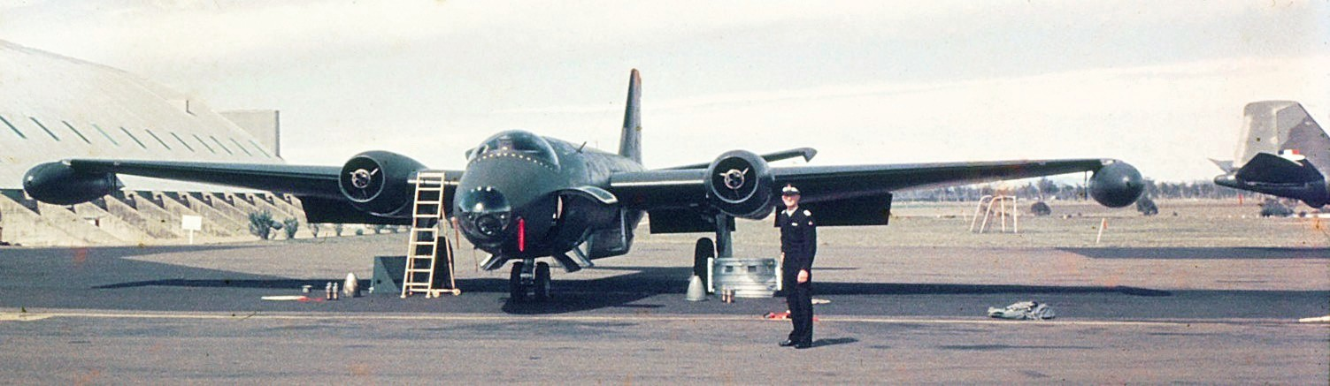 Cadet familarisation Canberra Bomber maintenance C.1967